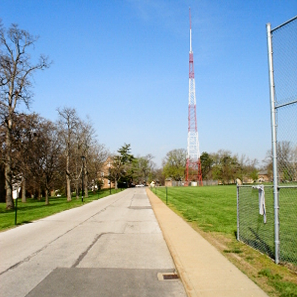 Author:Robert E. Nylund Source:Personal Photos